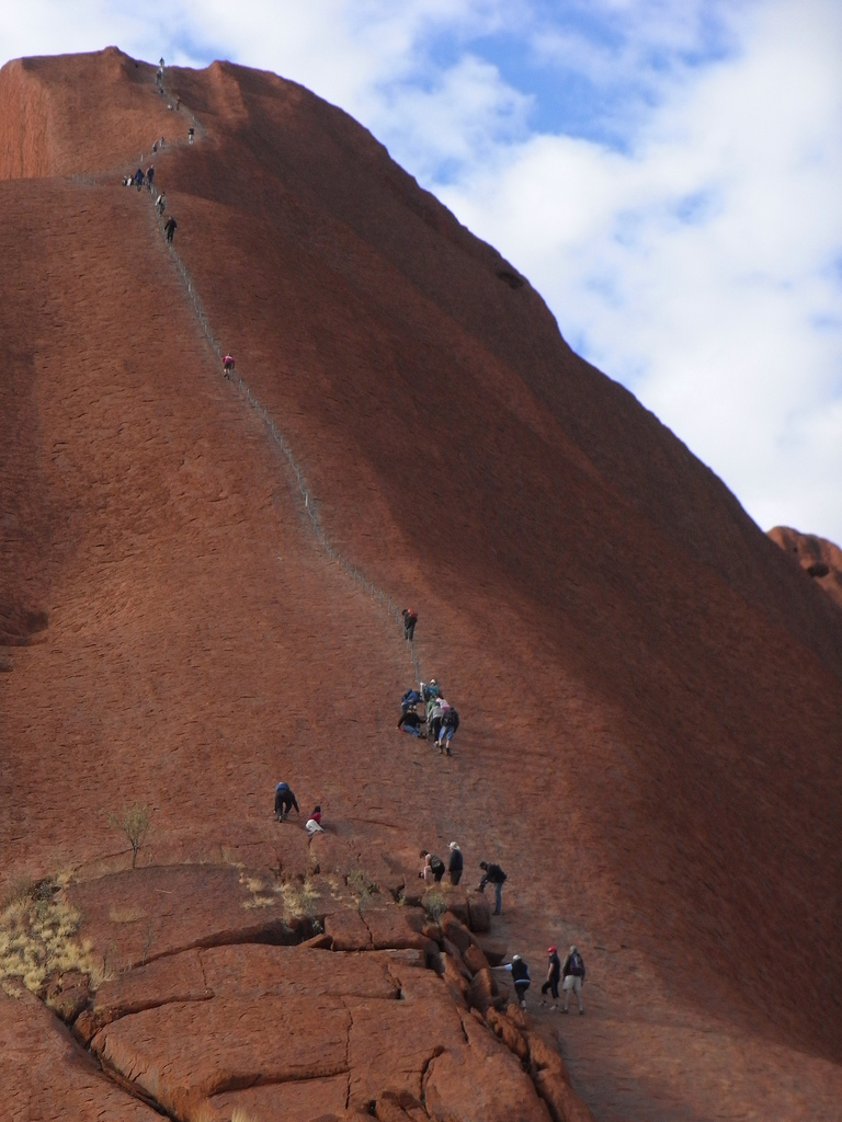 This photograph shows the climbing route at Uluru used by visitors to reach the top of the landmark. The Aboriginal owners of Uluru request that visitors do not climb the rock, but there are no legal restrictions against climbing.